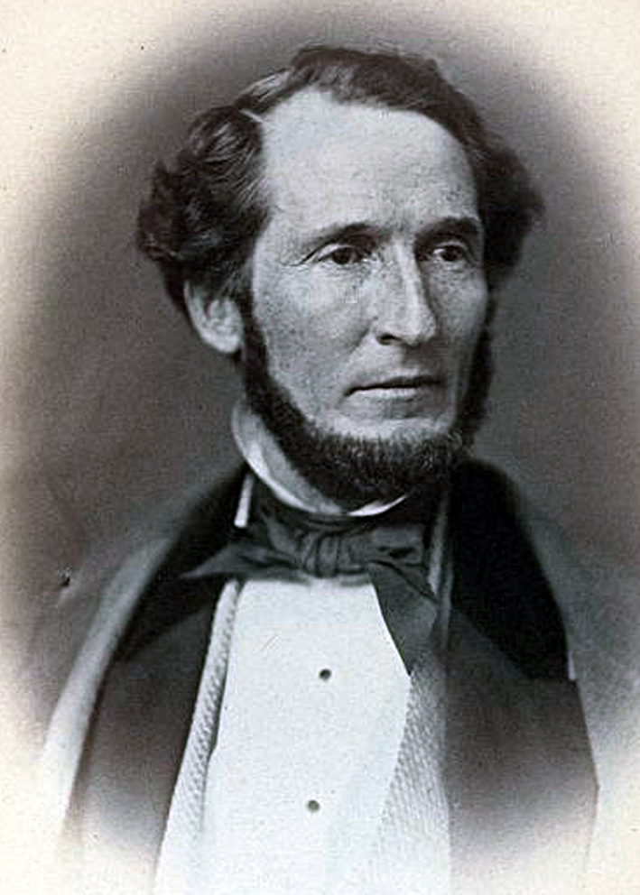 Calvin C. Chaffee, US Representative from Massachusetts